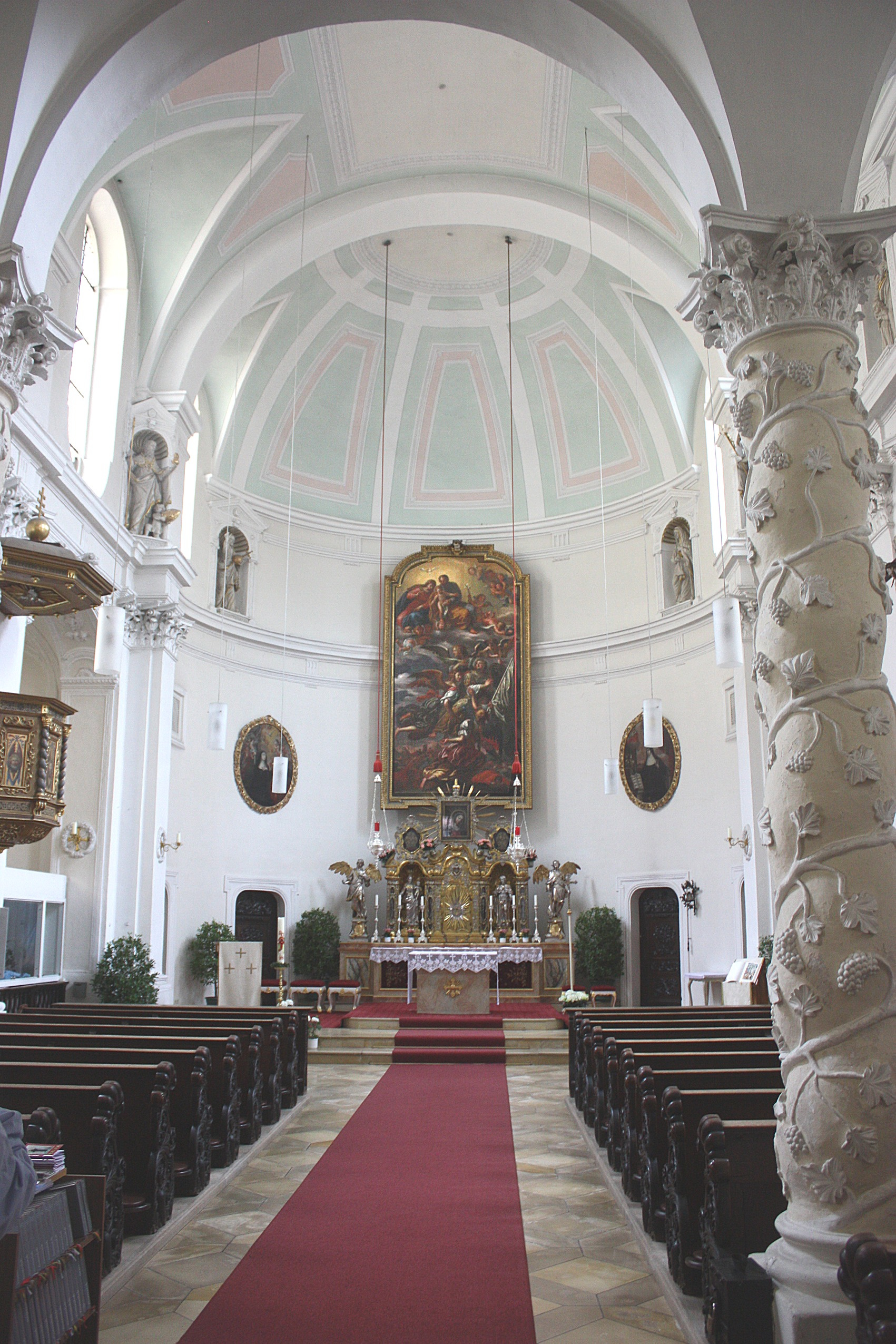 Landshut, the Ursuline church, inner view